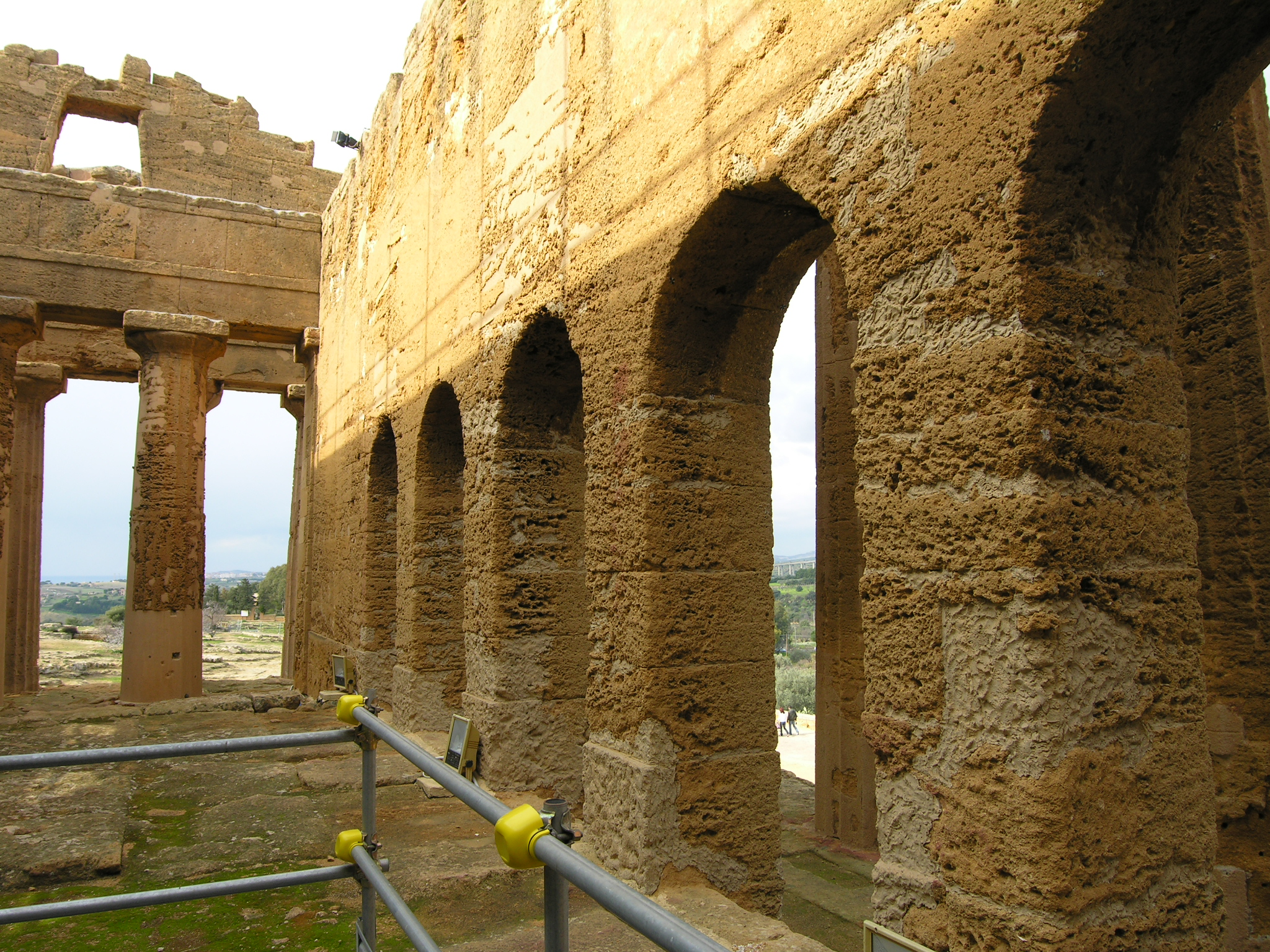 Archaeological Area of Agrigento (Italy)